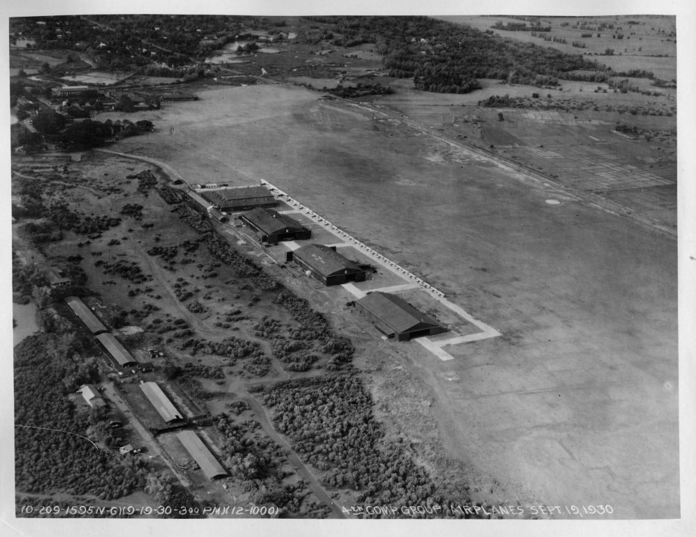 PictionID:38278645 - Catalog:AL-135A 092 Nichols Field 4th Composite Group 19Sep30 - Filename:AL-135A 092 Nichols Field 4th Composite Group 19Sep30.tif - This image is from a photo album donated to the Museum by JL Highfill, who was a photographer for the Navy before and during the Second World War-----------PLEASE TAG this image with any information you know about it, so that we can permanently store this data with the original image file in our Digital Asset Management System.-----------------SOURCE INSTITUTION: San Diego Air and Space Museum Archive